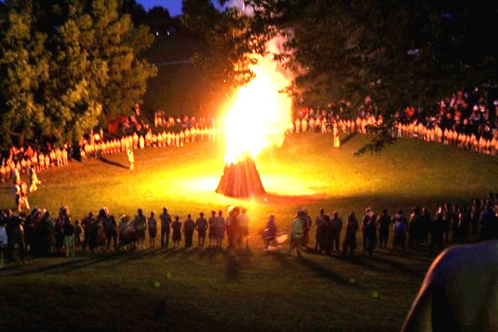 Mic-O-Say Tapping Ceremony at Camp Geiger, St Joseph, MO 07 15 2010